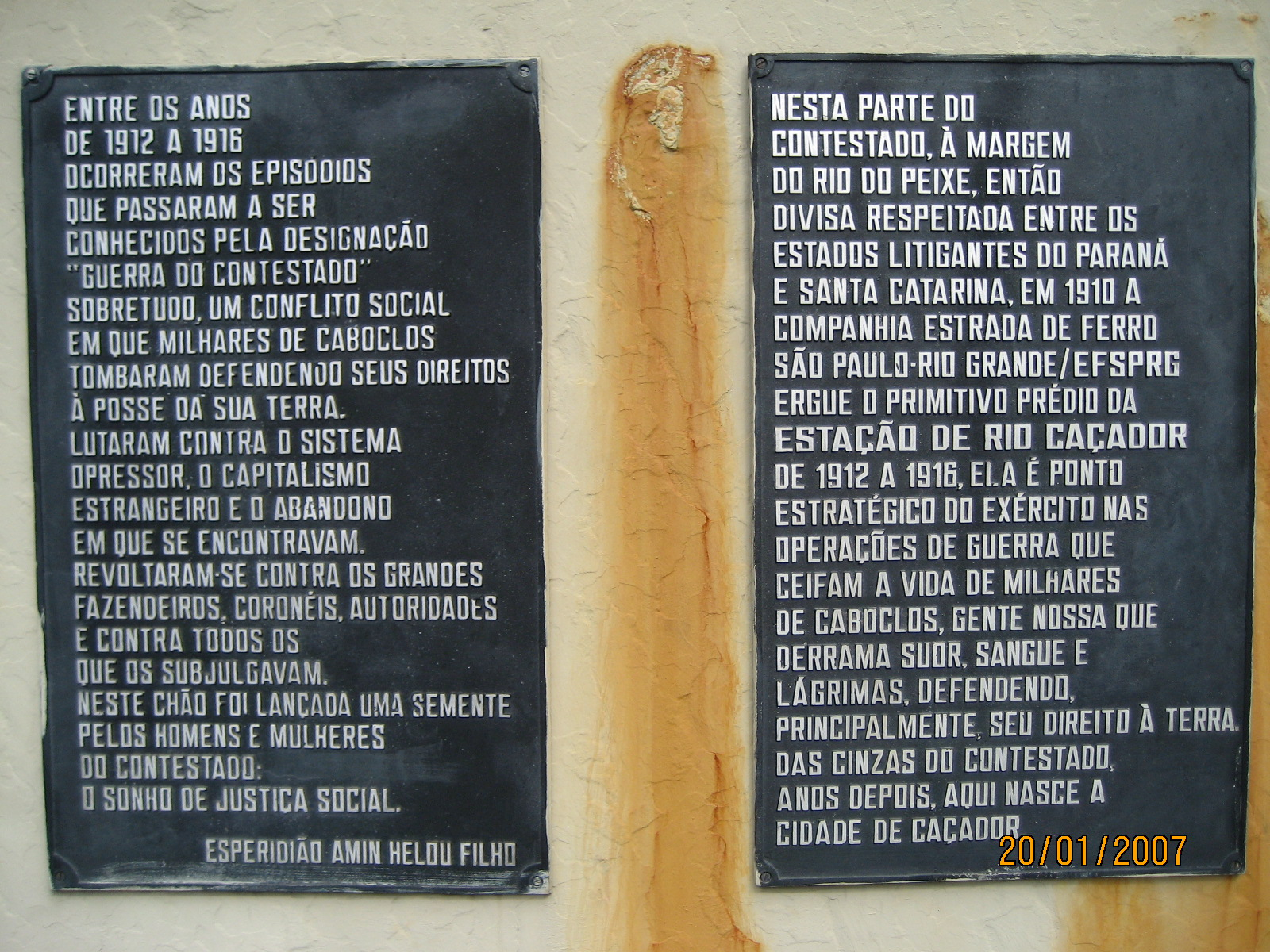 Monument - Contestado Museum - Caçador - SC - Brazil Author: Edson L. Pedrassani Source: Own work